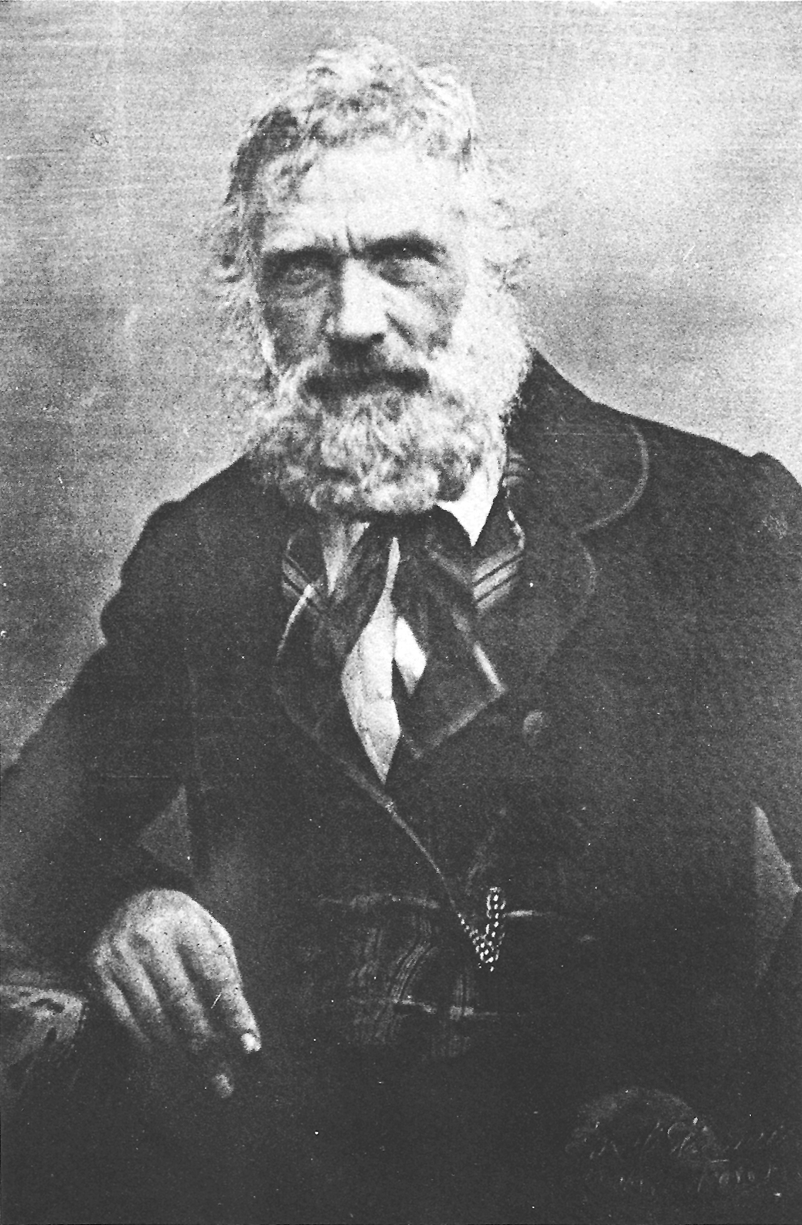 Selbstbildnis von Johann Baptist Isenring (Papierkopie einer Daguerreotypie)